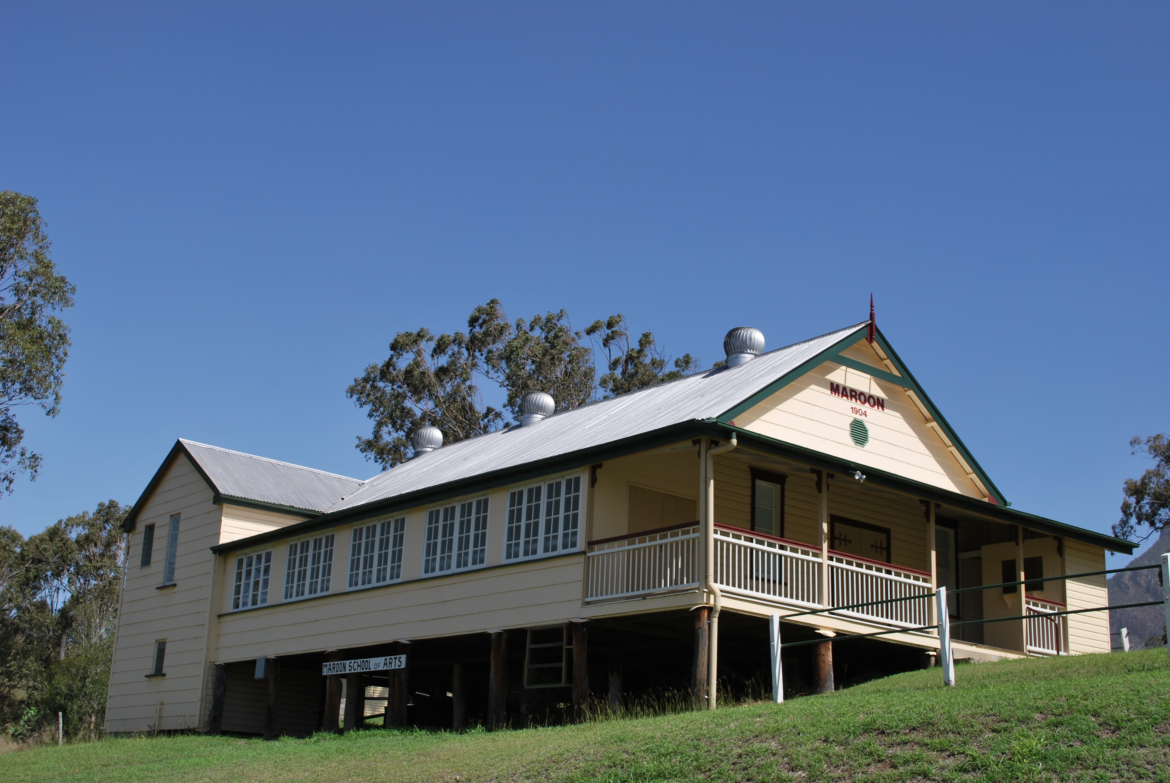 School of Arts Hall in Maroon, Queensland